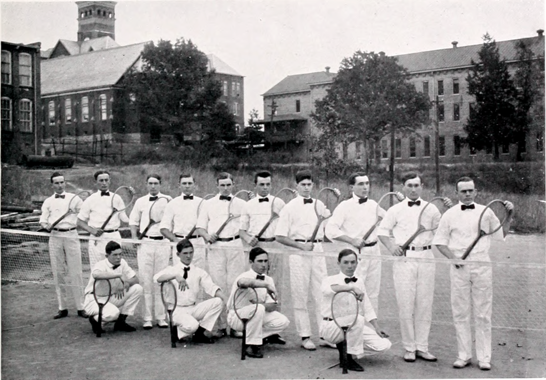 The sophomore tennis club at Clemson College